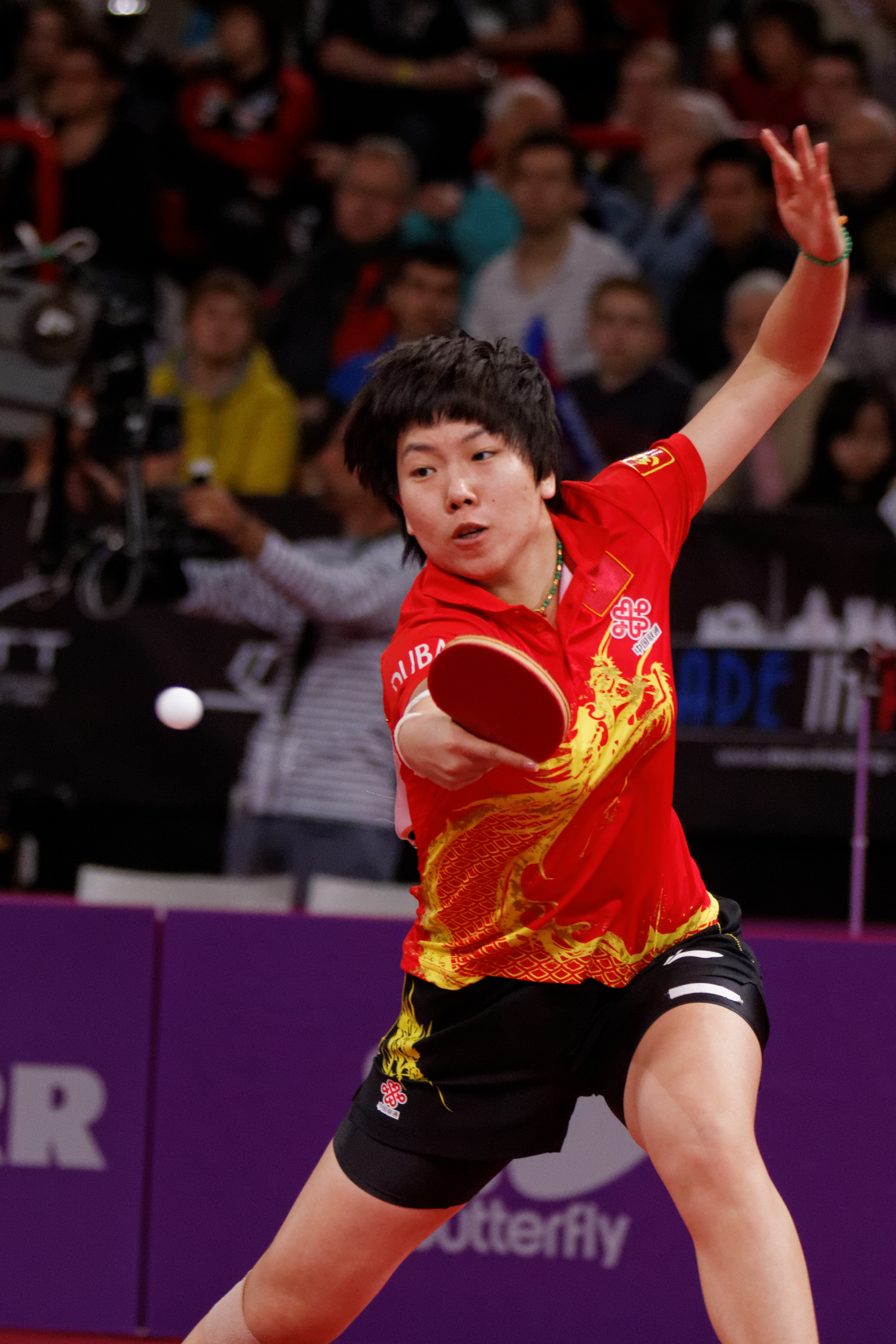 2013 World Table Tennis Championships, Paris. Women's Singles Quarterfinal.Wu Yang vs Li Xiaoxia.